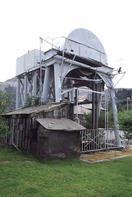 Penrhyn Quarry. Preserved (or just left alone?) water-balance hoist at the world's largest working slate quarry.